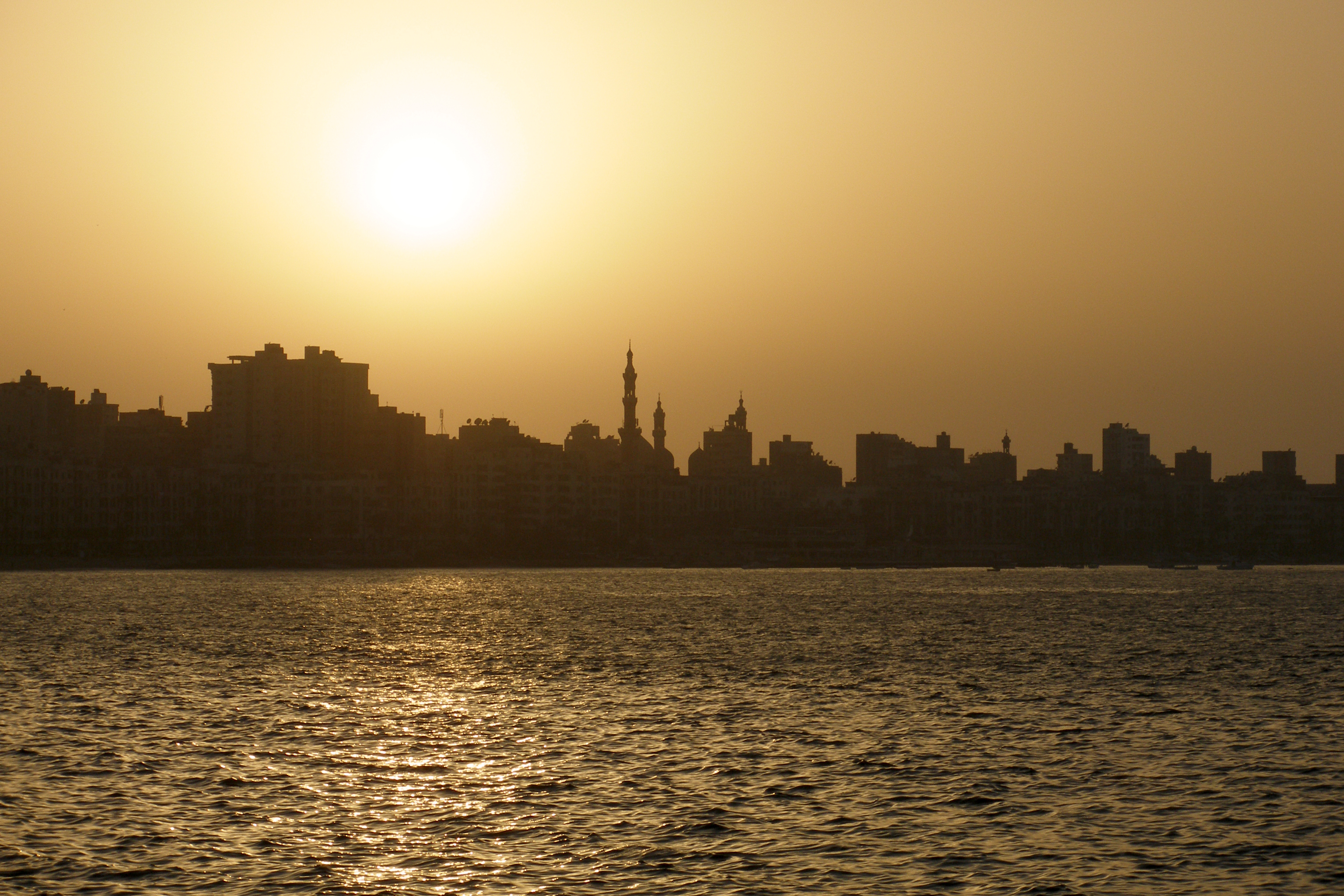 Alexandria (population of 3.5 to 5 million), is the second-largest city in Egypt, and its largest sea port. Alexandria extends about 20 miles (32 km) along the coast of the Mediterranean sea in north-central Egypt. It is home to the Bibliotheca Alexandrina, the New Library of Alexandria, and is an important industrial centre because of its natural gas and oil pipelines from Suez. The city of Alexandria was named after its founder, Alexander the Great, and as the seat of the Ptolemaic rulers of Egypt, quickly became one of the greatest cities of the Hellenistic world - second only to Rome in size and wealth.